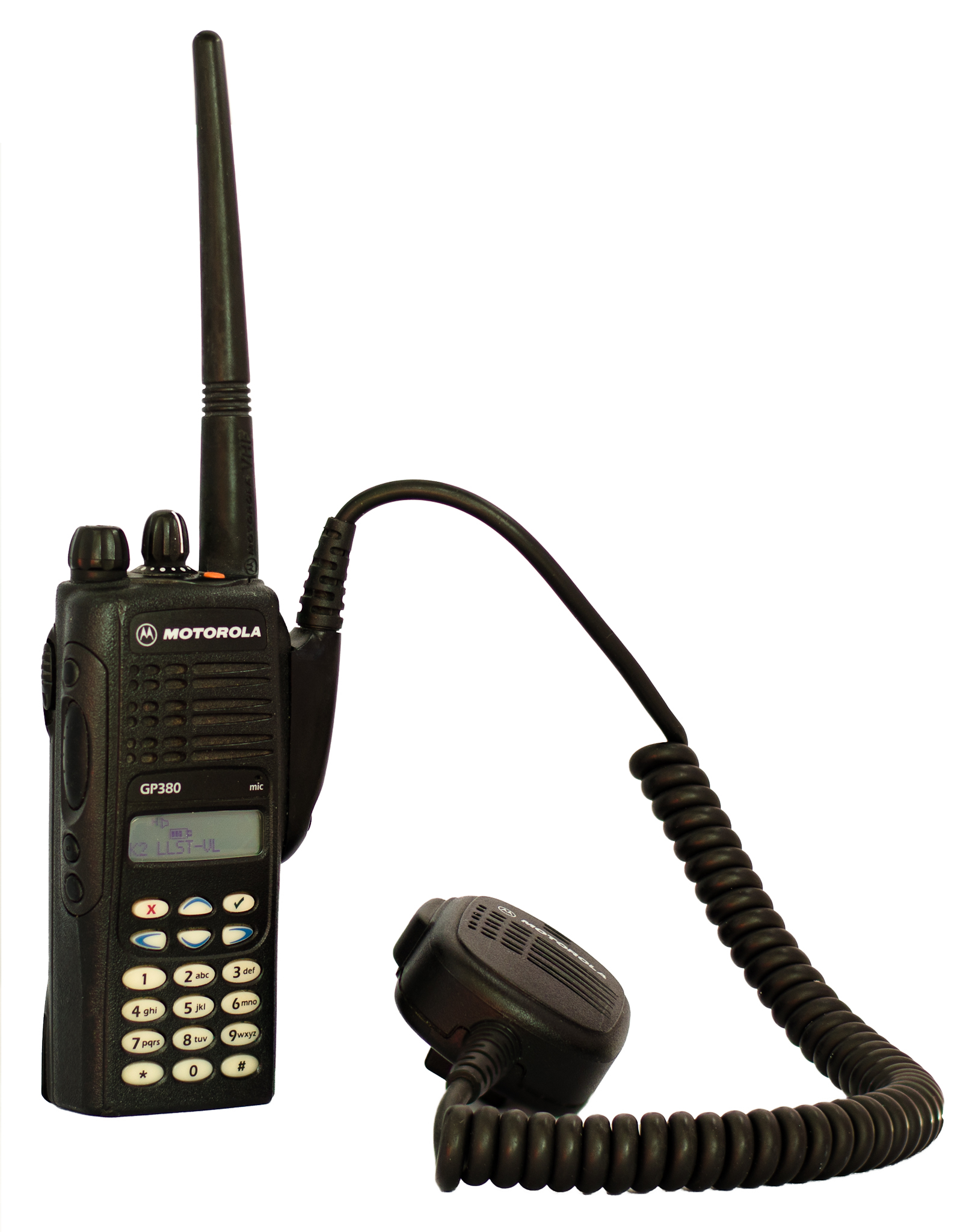 Motorola GP-380 with Speaker Microphone